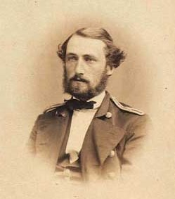 Sophus Johannes Paulsen (1838-1884), Danish naval officer and politician, MP